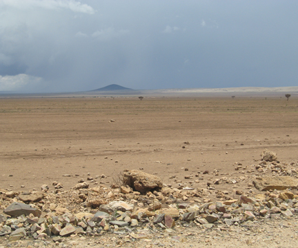 Driving on the road that leads from the closest city of Jijiga to the Awbarre camp is a desolate journey; the land is heavily deforested which is why growing crops as well as collecting firewood is nearly impossible. Sometimes, women are forced to dig up roots for woodfuel. Driving on the road that leads from the closest city of Jijiga to the Awbarre camp is a desolate journey; the land is heavily deforested which is why growing crops as well as collecting firewood is nearly impossible. Sometimes, women are forced to dig up roots for woodfuel.